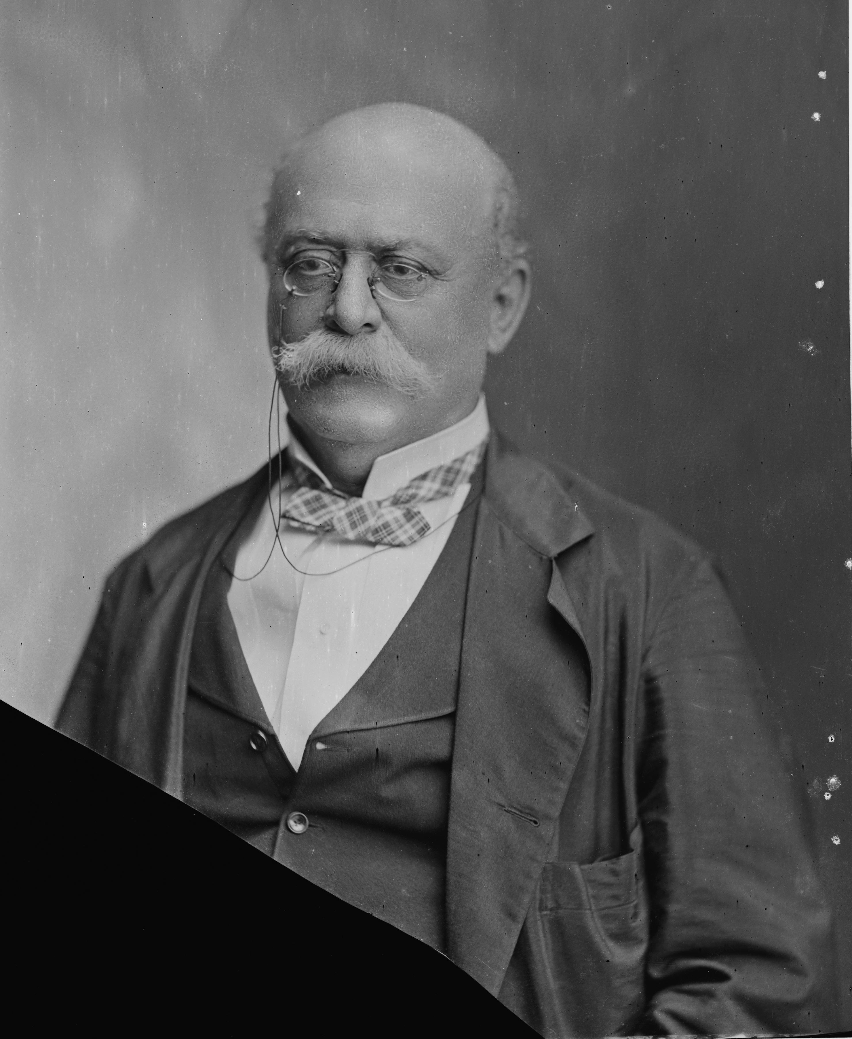 Louis M. Goldsborough. Library of Congress description: "Goldsborough, Adm. U.S.N. (not in uniform)"